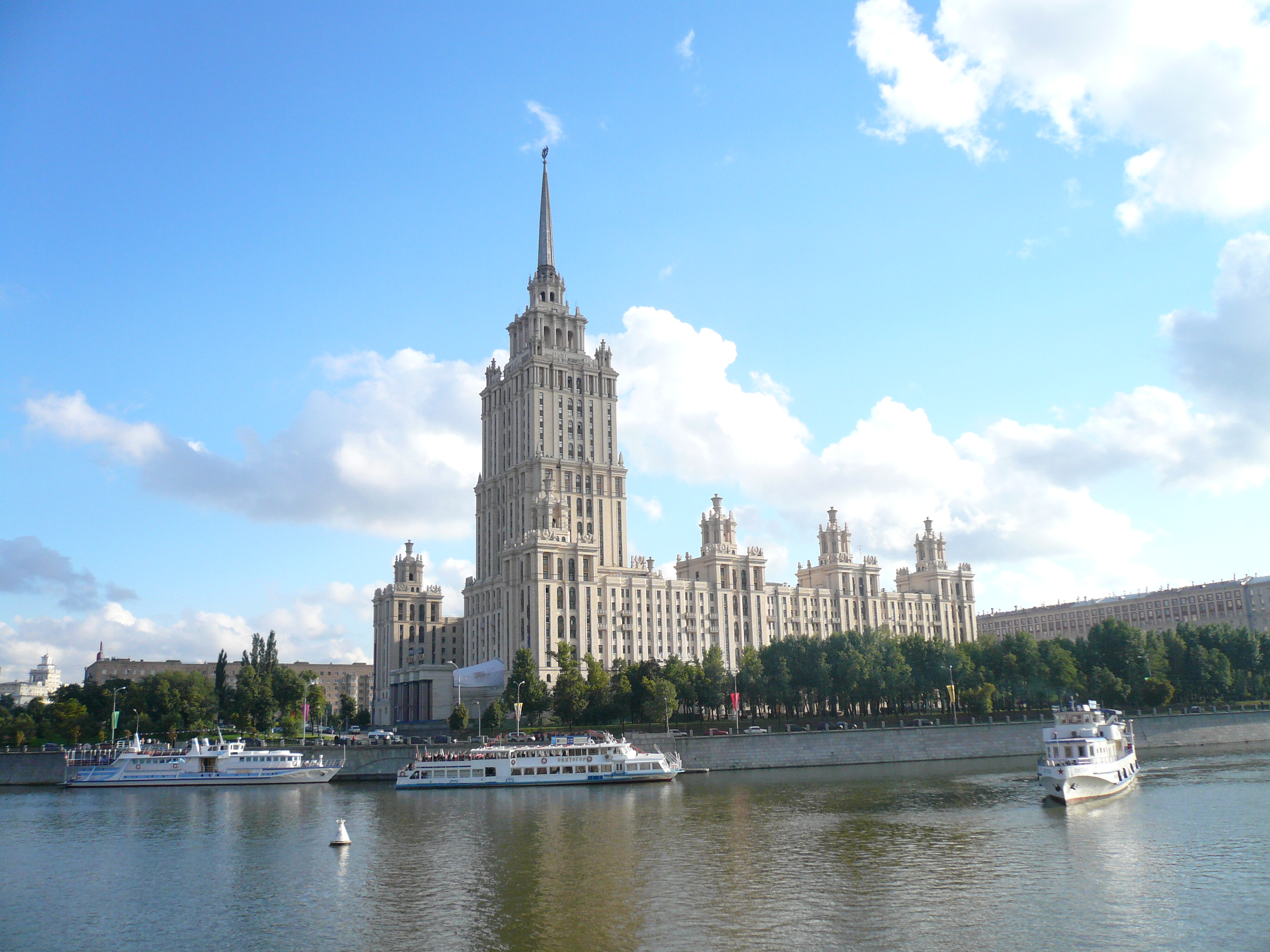 Hotel "Ukraina" in Moscow, Russia